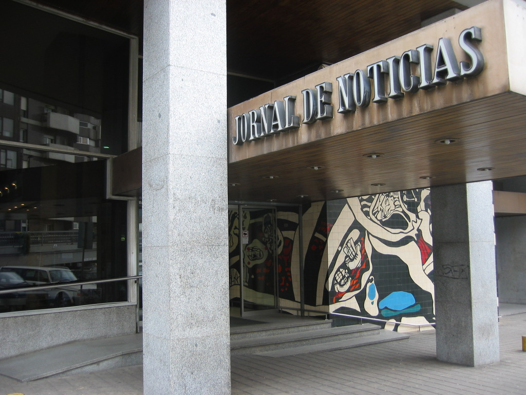 Building of the newspaper "Jornal de Notícias", Porto, Portugal